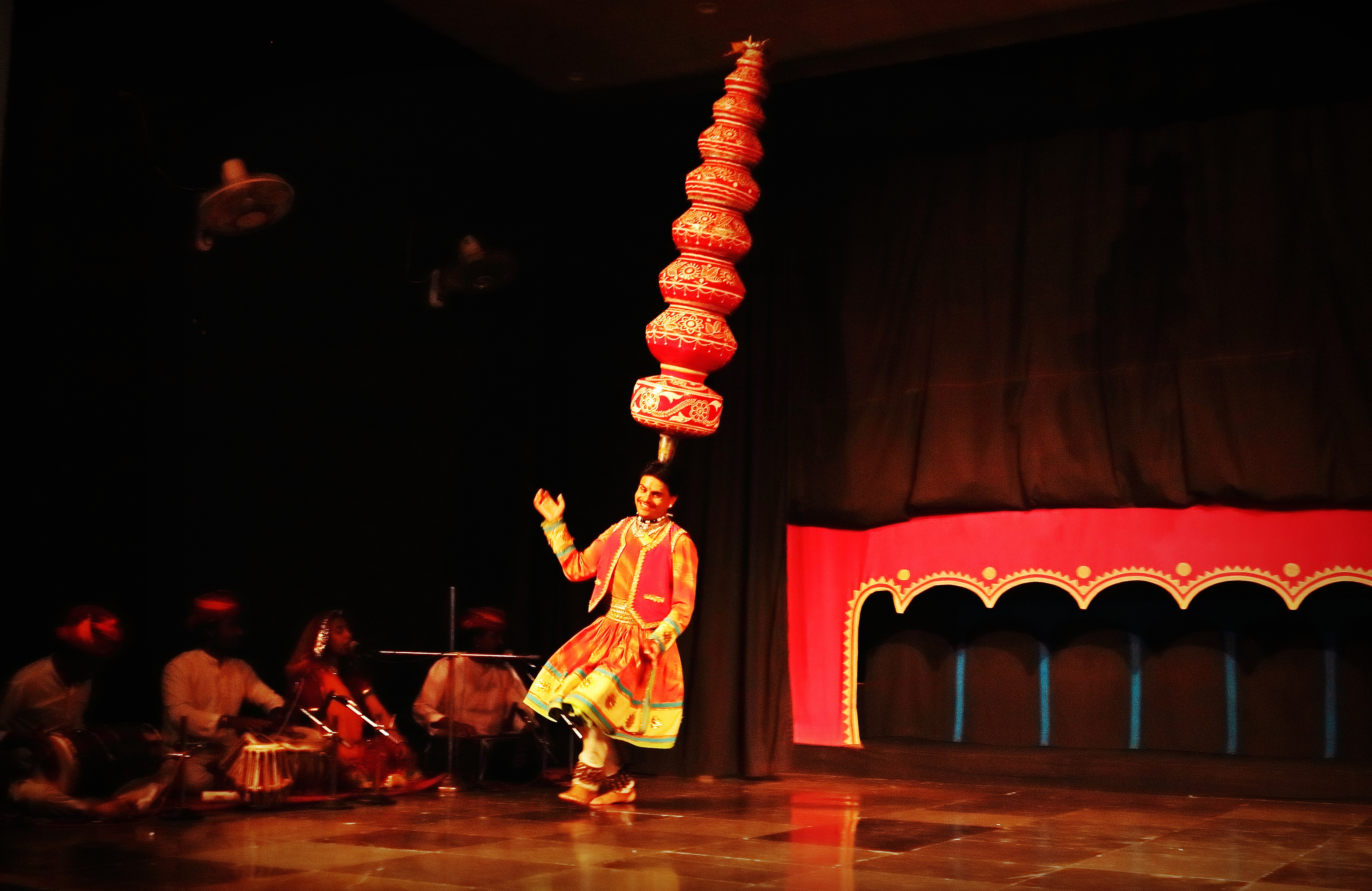 The dance involves men/women balancing eight to nine brass pitchers or earthen pots on their head as they dance and twirl with their feet on the perimeter of a brass plate or on the top of a glass. Because of its high level of difficulty and complexity, it takes years for the performer to master the dance form. The inspiration of this dance format seems to come from the rural life of Rajasthan. Being a state substantially covered with desert, there has never been an abundance of water resources here. Earlier, womenfolk of the villages were required to fetch water from common sources like wells. They used to carry multiple clay pots simultaneously to save their time since the path in villages was used to be filled with thorns. It pretty much clears up how the whole chore would have inspired a dance format which has now received international recognition. This photo has been taken in the country: India